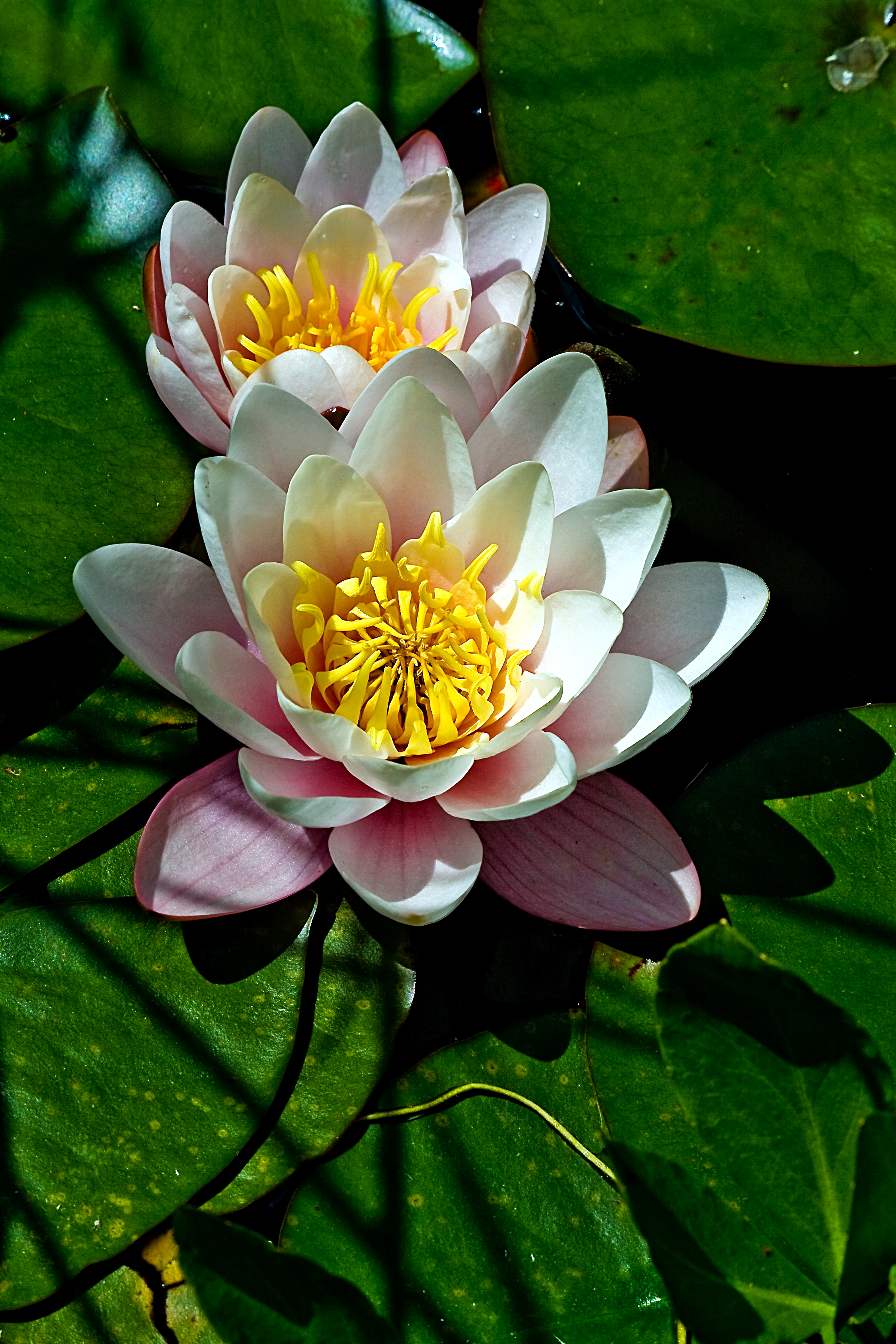 An european white Waterlily